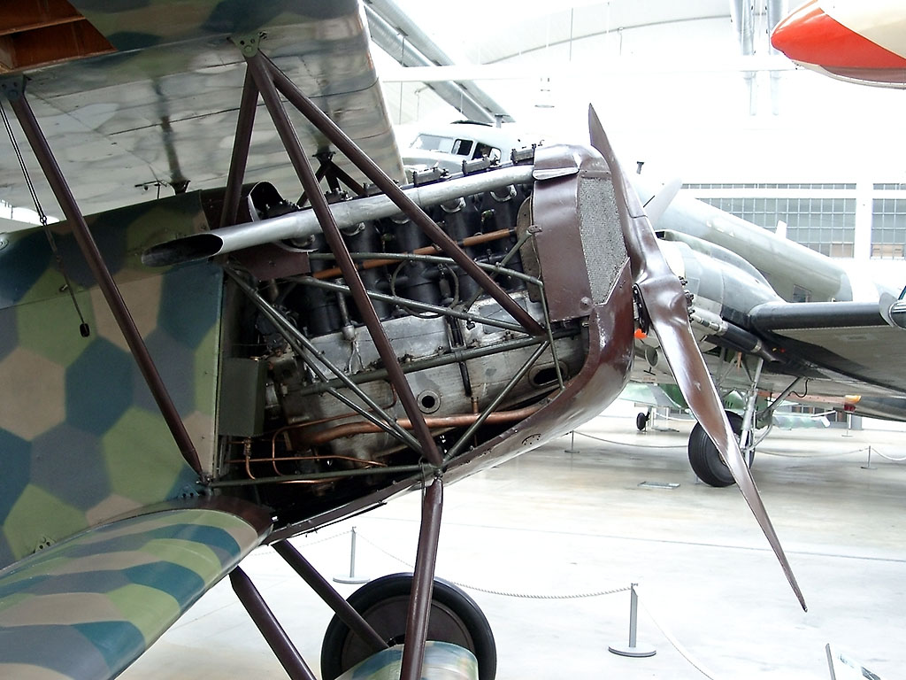 Daimler DIIIa, picture taken in Deutsches Museum Flugwerft Schleissheim